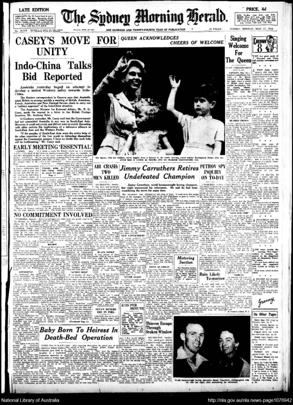 Jimmy Carruthers retires undefeated champion